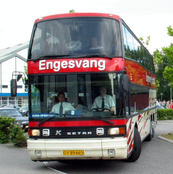 Double-decker bus for turism